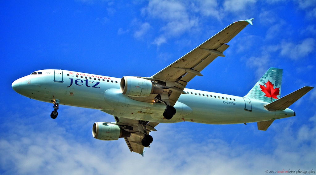 Air Canada Jetz Airbus A320